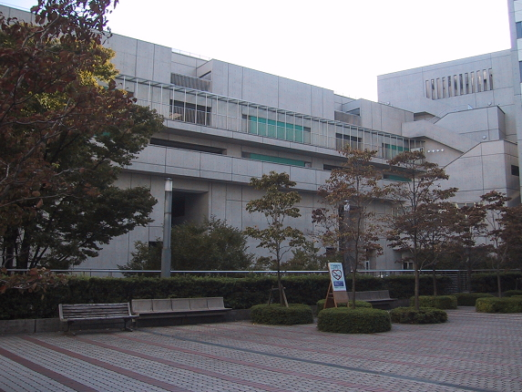 Toyo University Hakusan Campus No.4 Hall(東洋大学白山キャンパス4号館（体育館・厚生棟）)